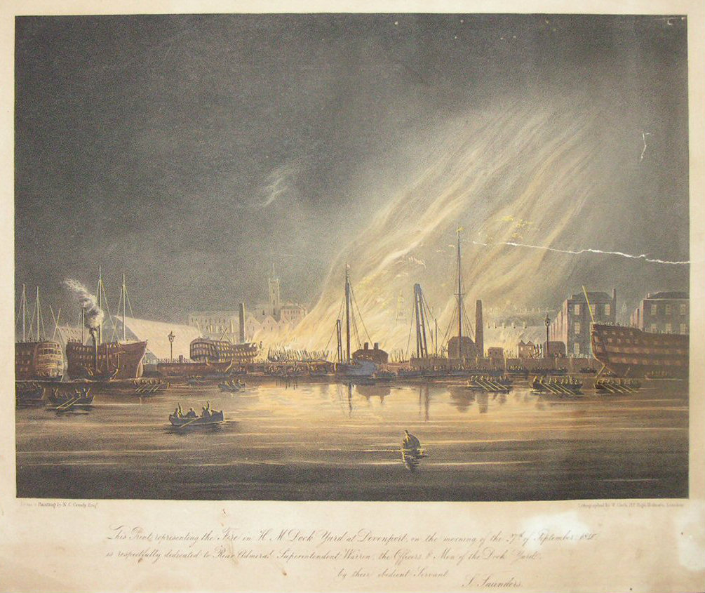 This View of the Fire in Her Majesty's Dock Yard, Devonport, on the morning of the 27th Sepr, 1840, by W. Clerk, after Nicholas Condy Engraver: W. Clerk Publisher: S Saunders, Devonport Dimensions: 382 x 450 mm